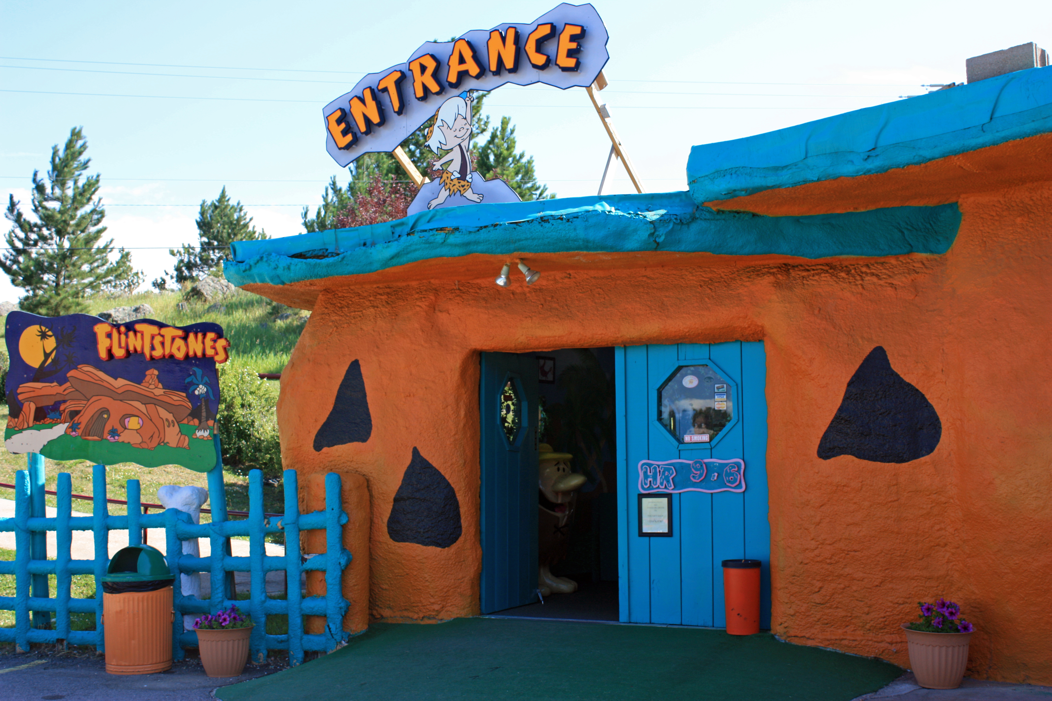 Entrance to Bedrock City, tourist attraction in Custer, South Dakota